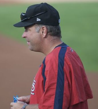 Joe Kruzel as a coach with the Quad Cities River Bandits at Cooley Law School Stadium in Lansing, Michigan in 2008